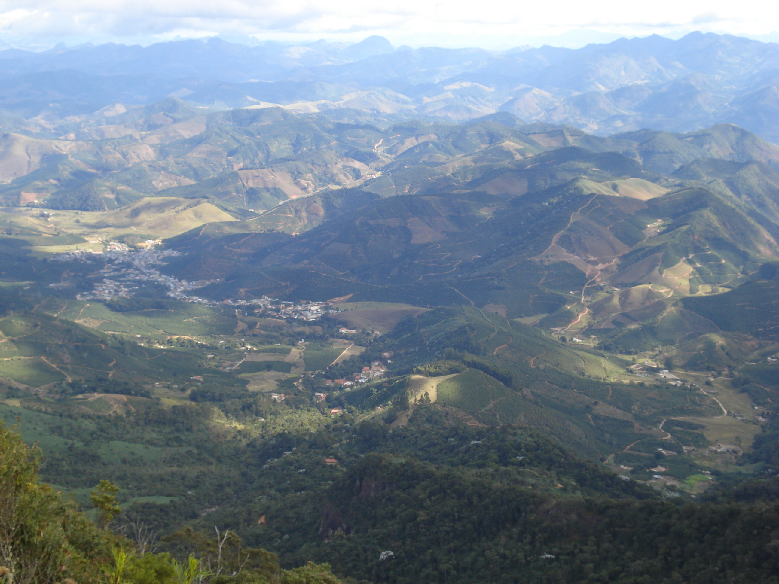 City of Alto Caparaó - Minas Gerais - Brazil from the viewpoint of Camp Tronqueira the National Park of Caparaó.